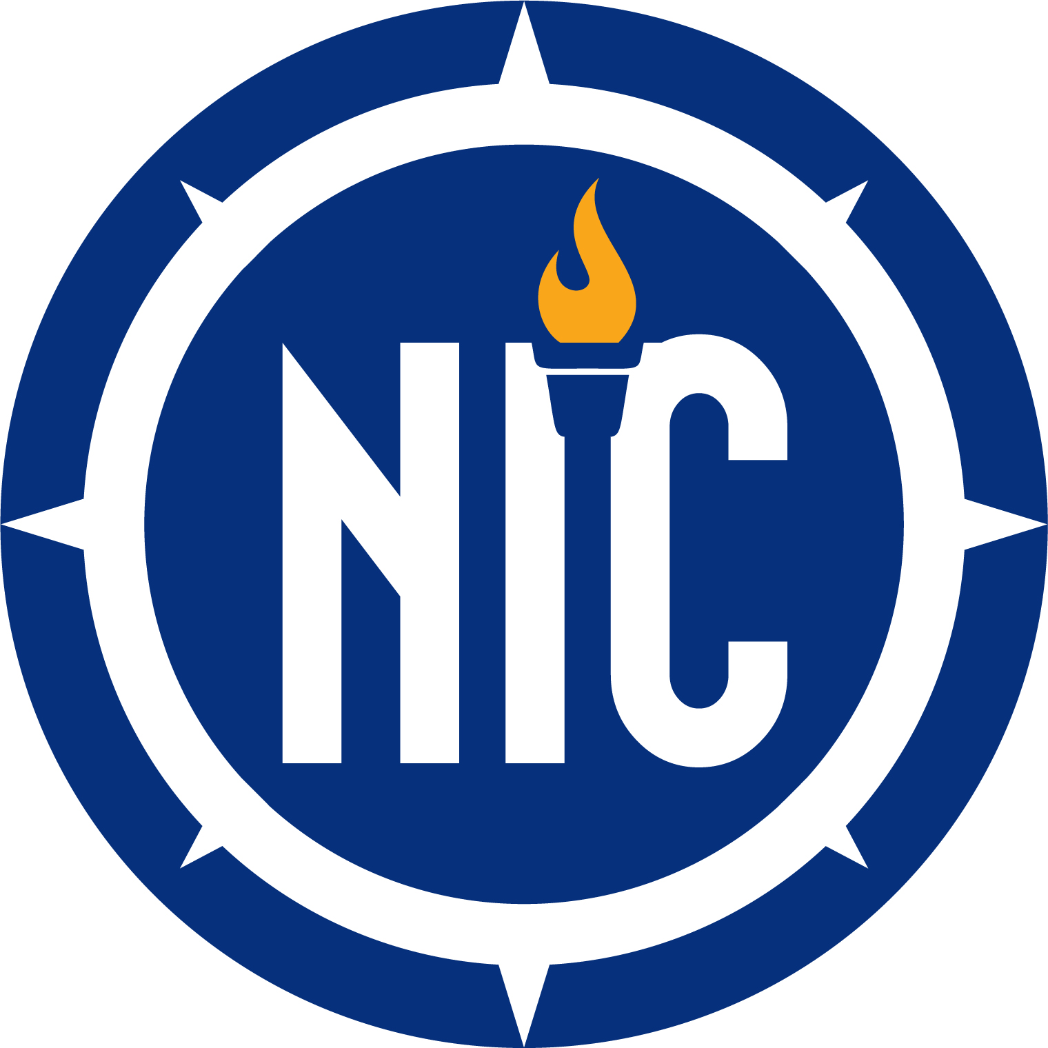 The NIC updated its logos in 2018